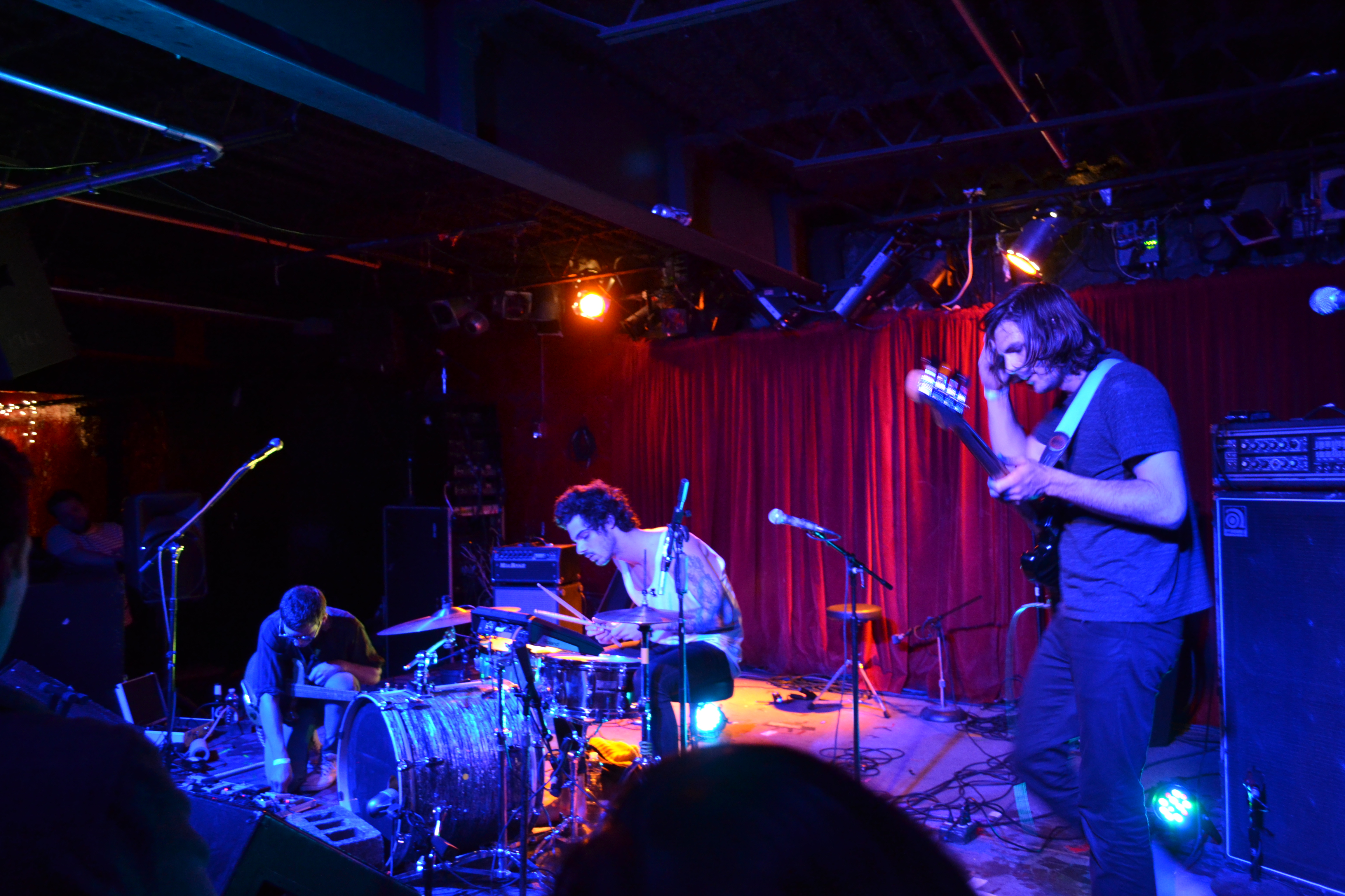 Gauntlet Hair performing at the Grog Shop in Cleveland Heights, Ohio.